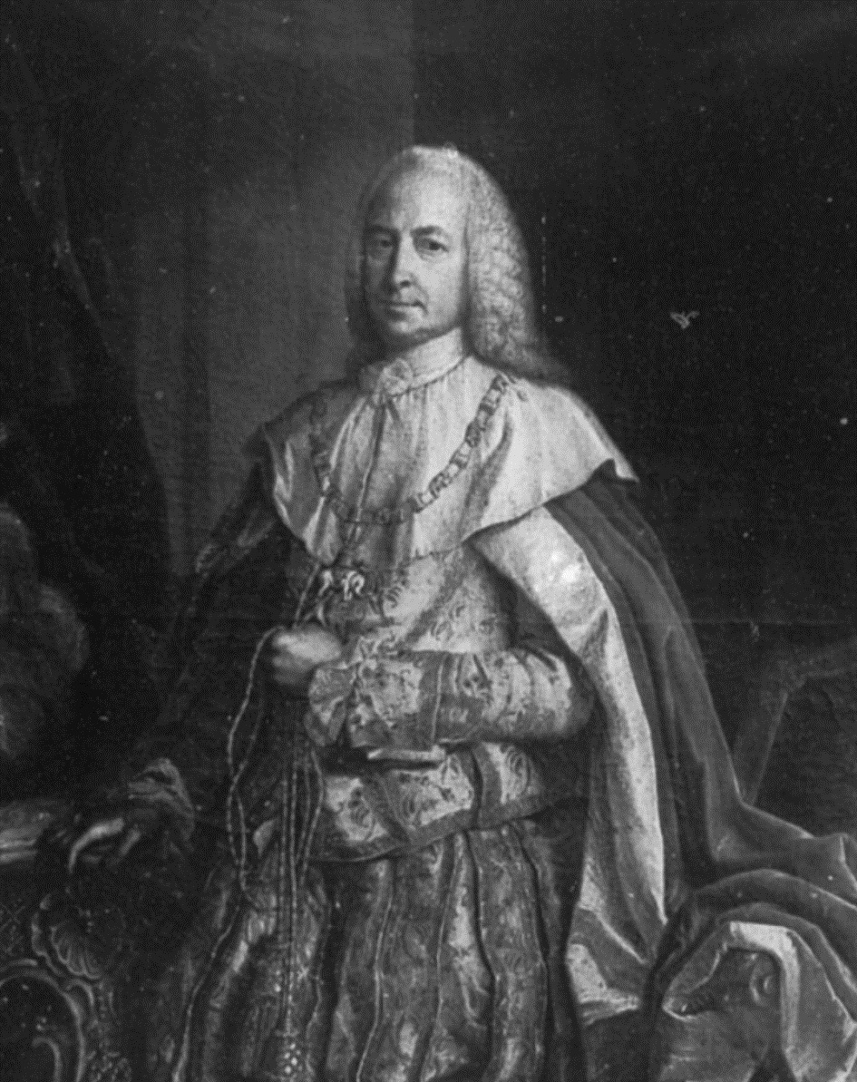 B/W reproduction